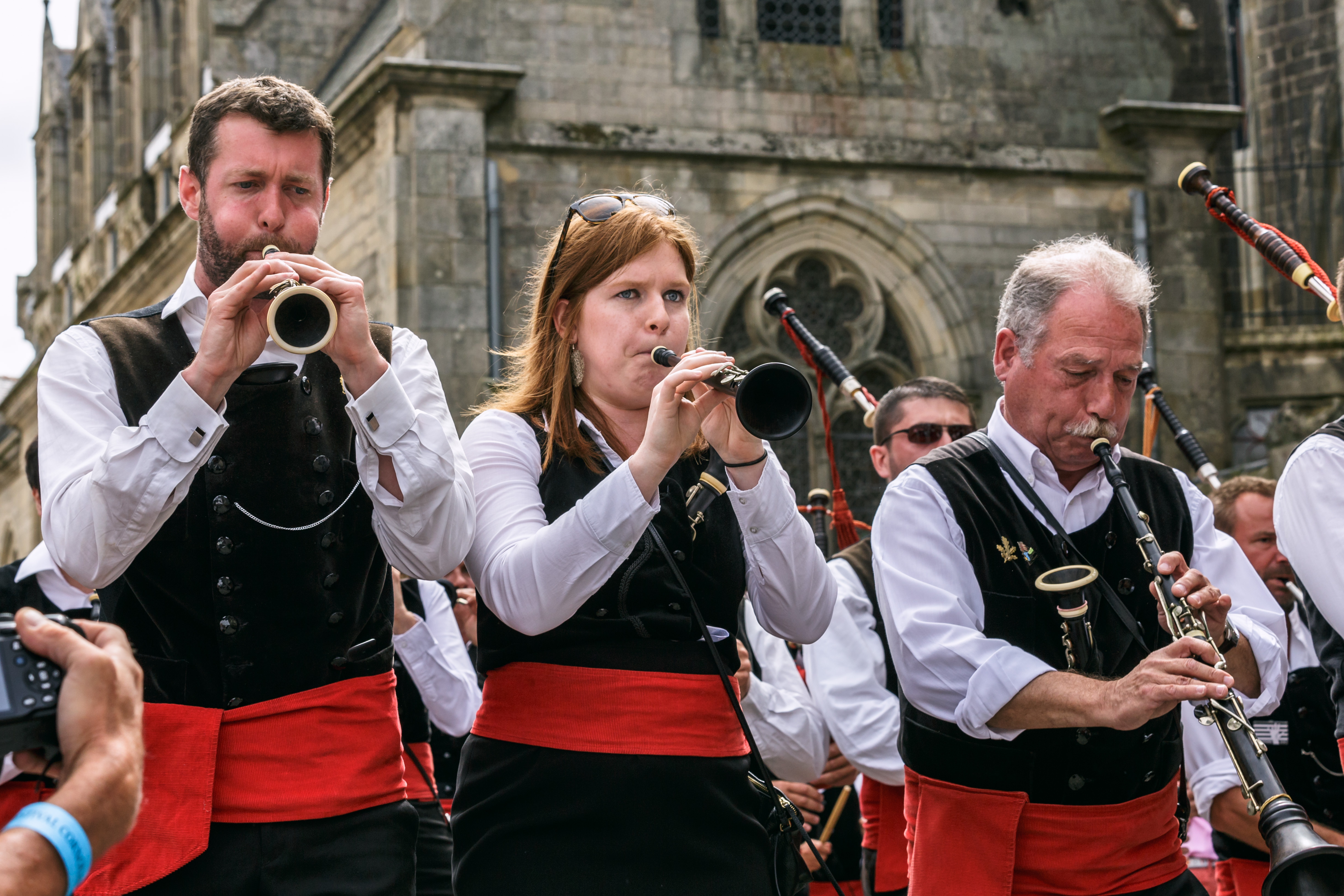 Parade of Breton folk groups during the 2016 Cornouaille Festival in the streets of Quimper.